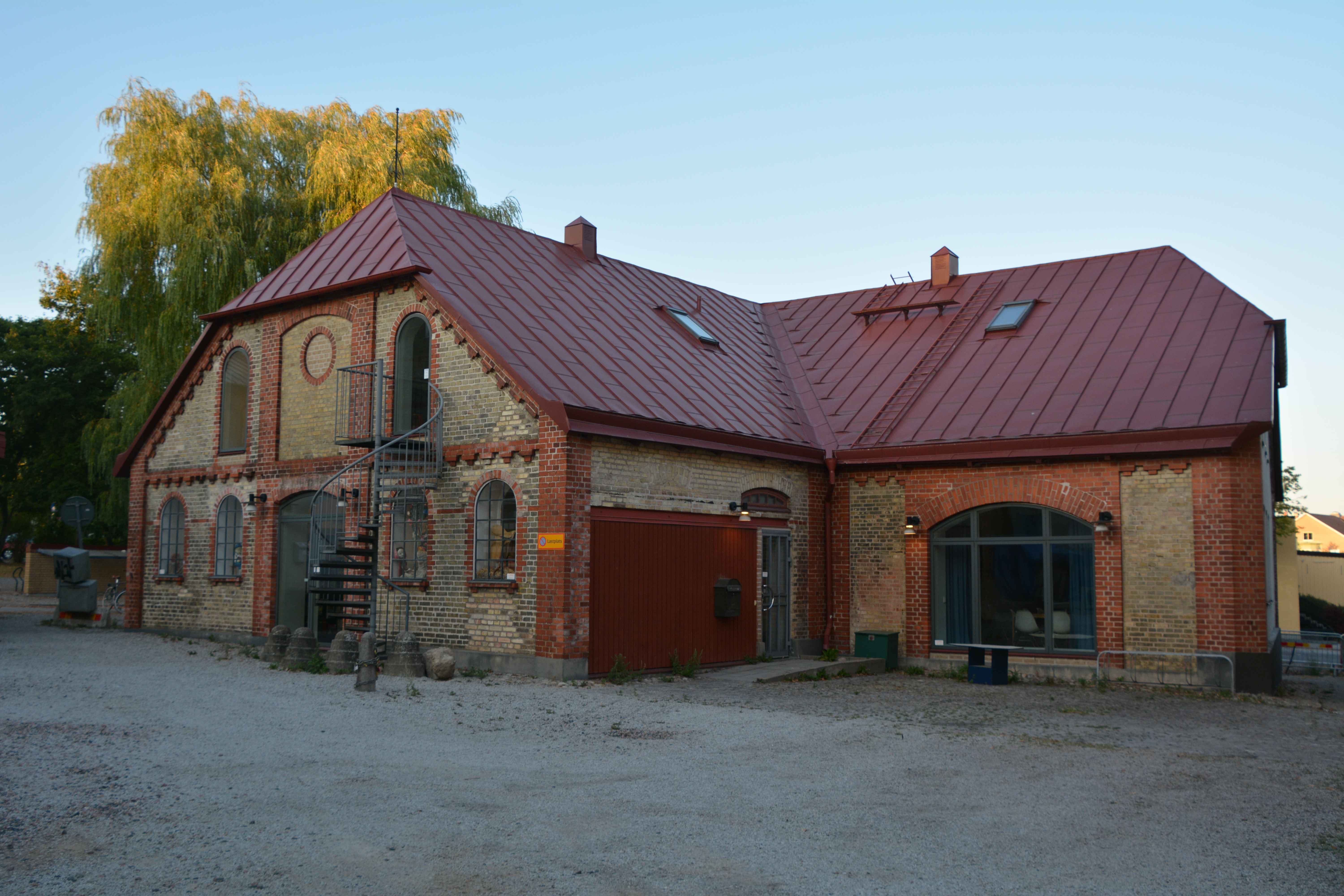 Dalby gästis, stallet